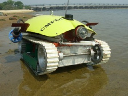 Sub terranean robot